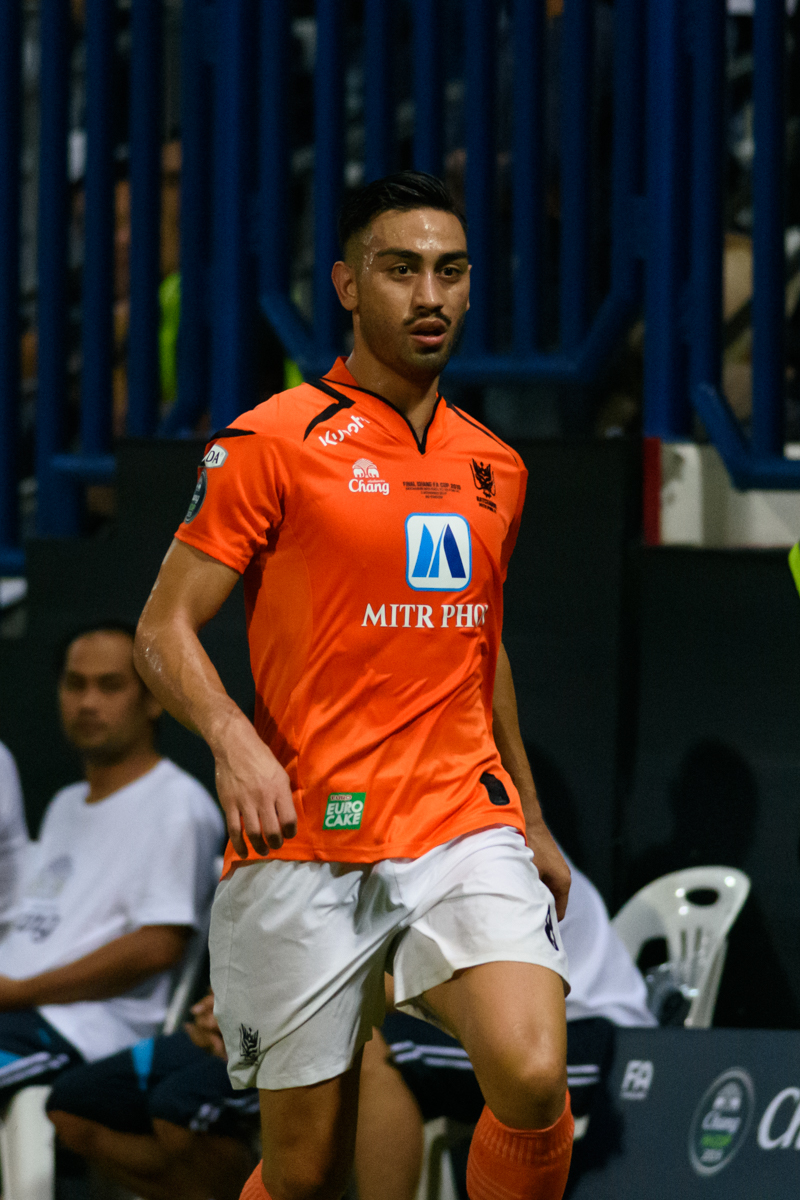 Amin Nazari during the Thai FA Cup Final 2019 vs Port FC